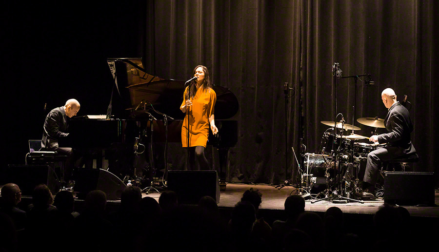 Tord Gustavsen performs at Cosmopolite Scene in Oslo during Vinterjazz 2016. Simin Tander on vocal and Jarle Vespestad on drums.